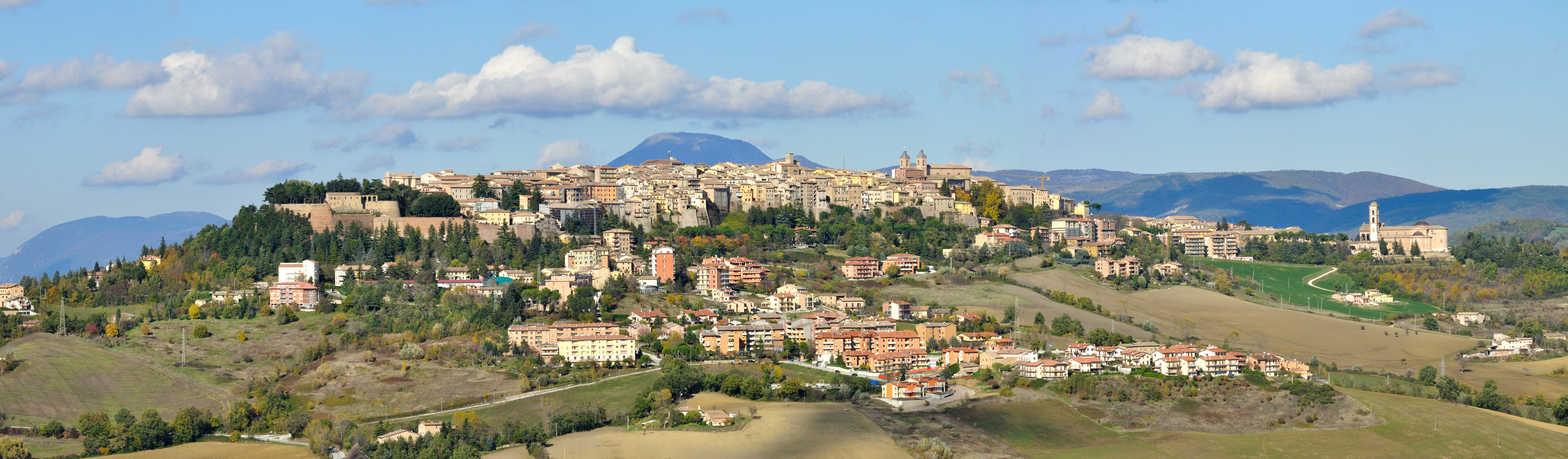 Panorama of Camerino